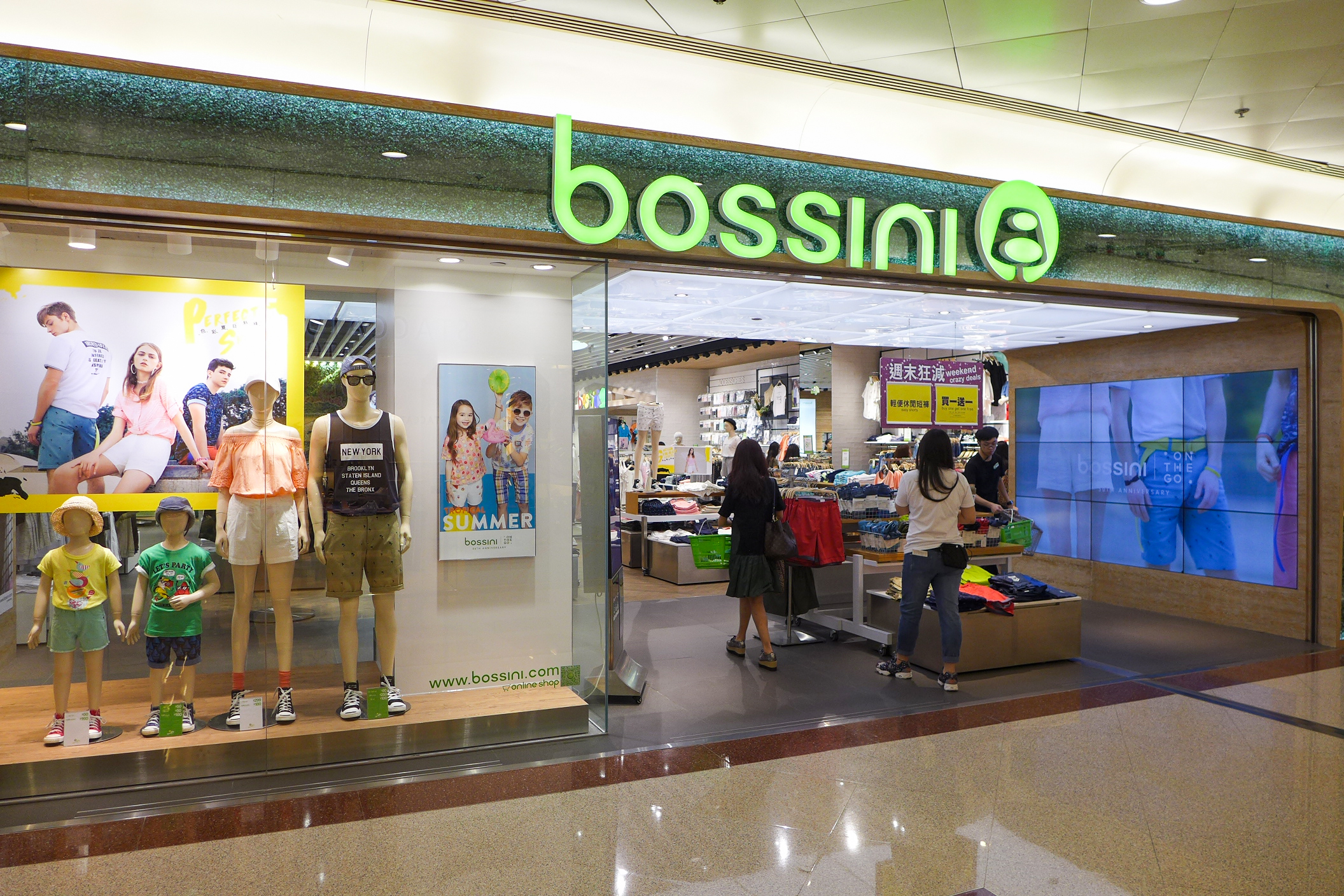 Plaza Hollywood Bossini